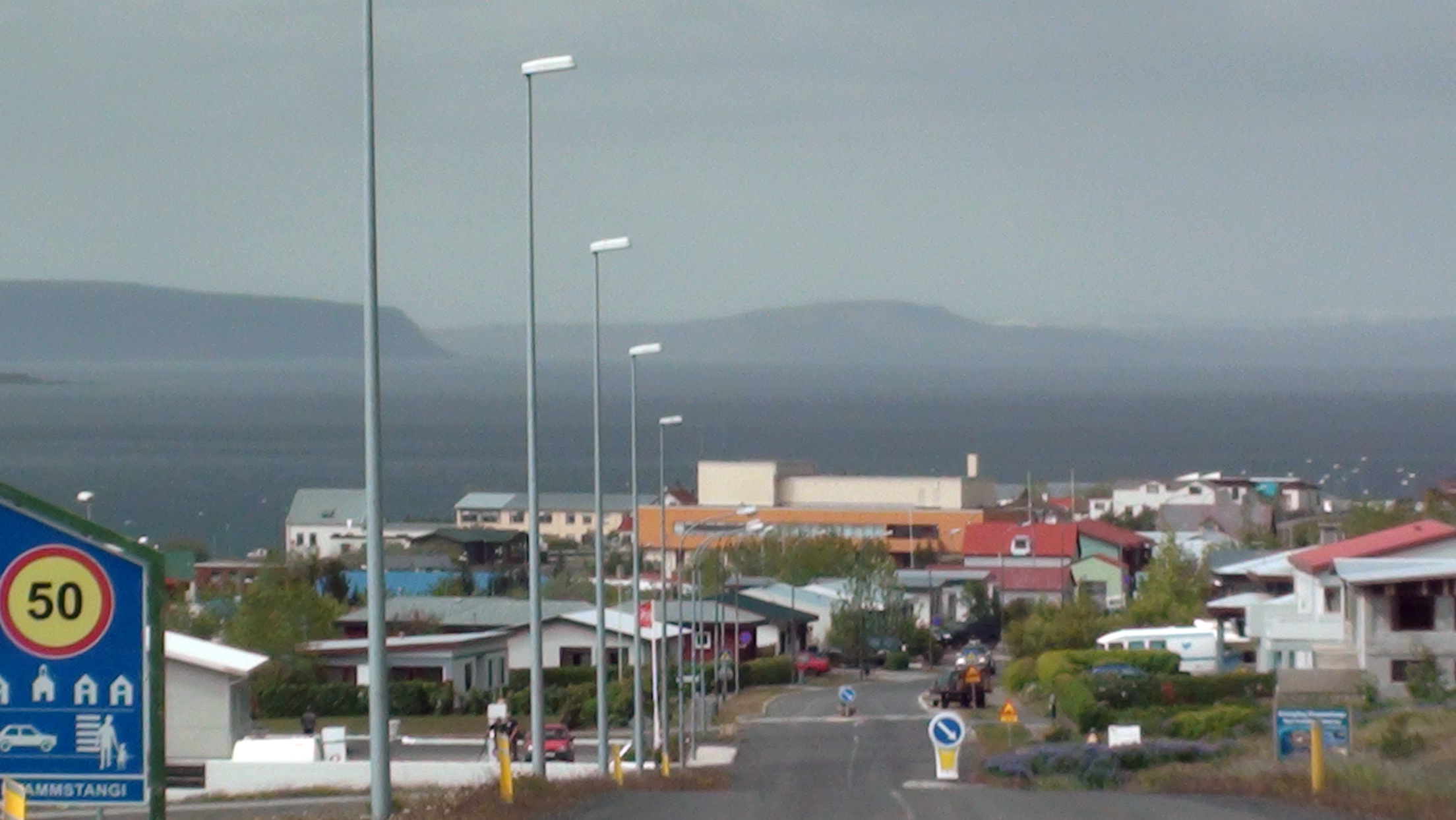 A photo of part of the small community Hvammstangi, in Iceland.